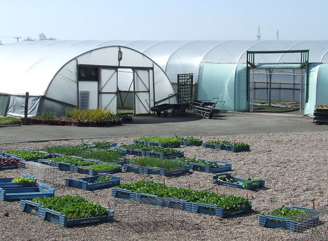 Polytunnels at Essington Fruit Farm, Staffordshire The farm grows many kinds of soft fruit, and is also a nursery for flowers and vegetables, not forgetting the piggies!